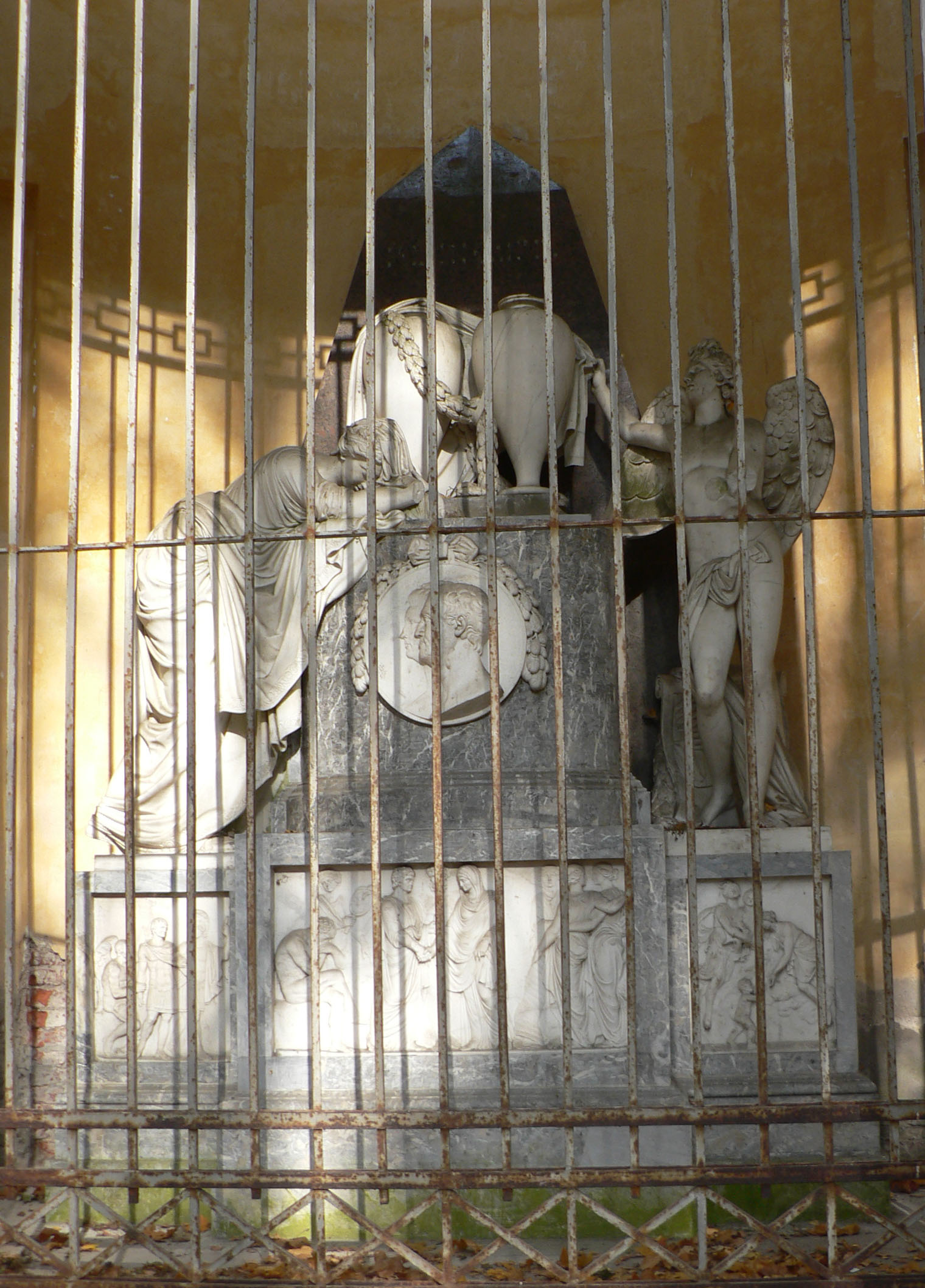 Monument to parents in Pavlovsk.